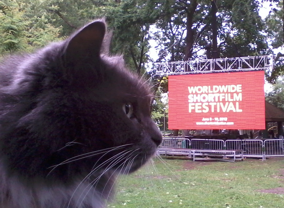 I took this photo with my cell phone of the festival mascot, Miel, at the free outdoor screening at Dufferin Grove Park which kicked off the 2012 CFC Worldwide Short Film Festival